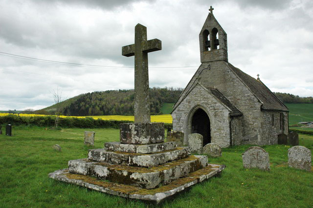 St Davids' parish church, Trostrey, Monmouthshire, seen from the west. The churchyard cross in the foreground has a Mediæval base and steps with a modern shaft and head.